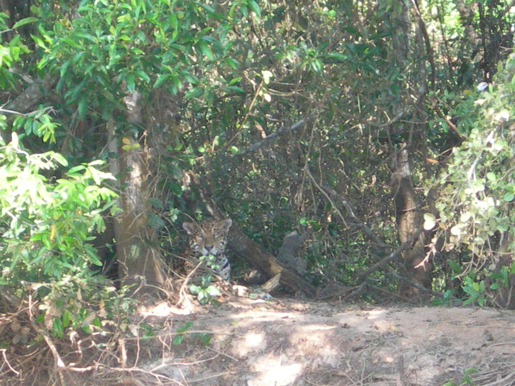 ONZA (Spotted Jaguar) resting on the shores of Sao Lourenco river in The Pantanal, MT, Brazil. Photo taken from a small boat, at about 30 yards, Nikon Coolpix 7900 with standard zoom.